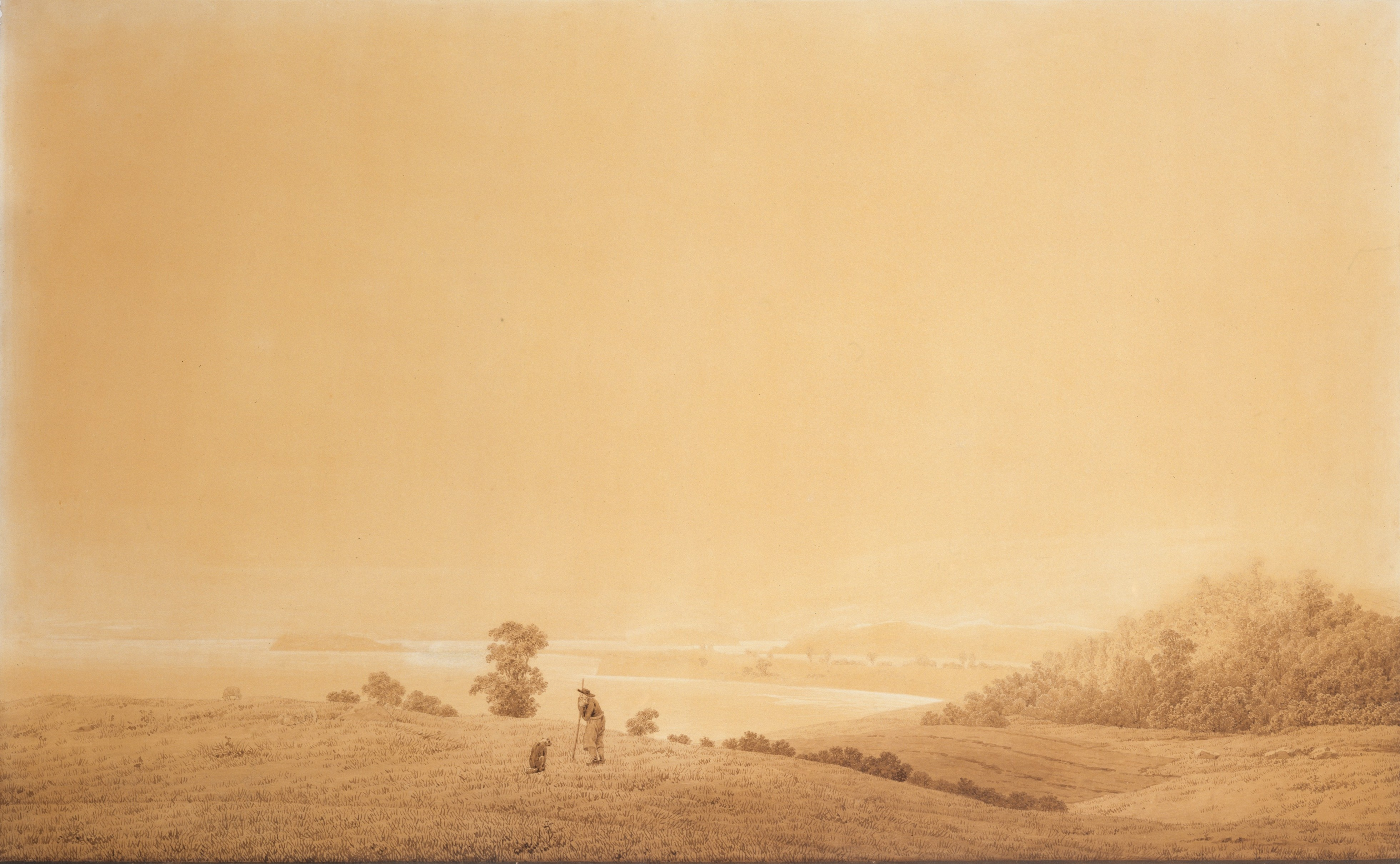 Probably a view from the Great Zicker (Mönchgut) on the south neighboring lagoon landscape of the Bay of Greifswald